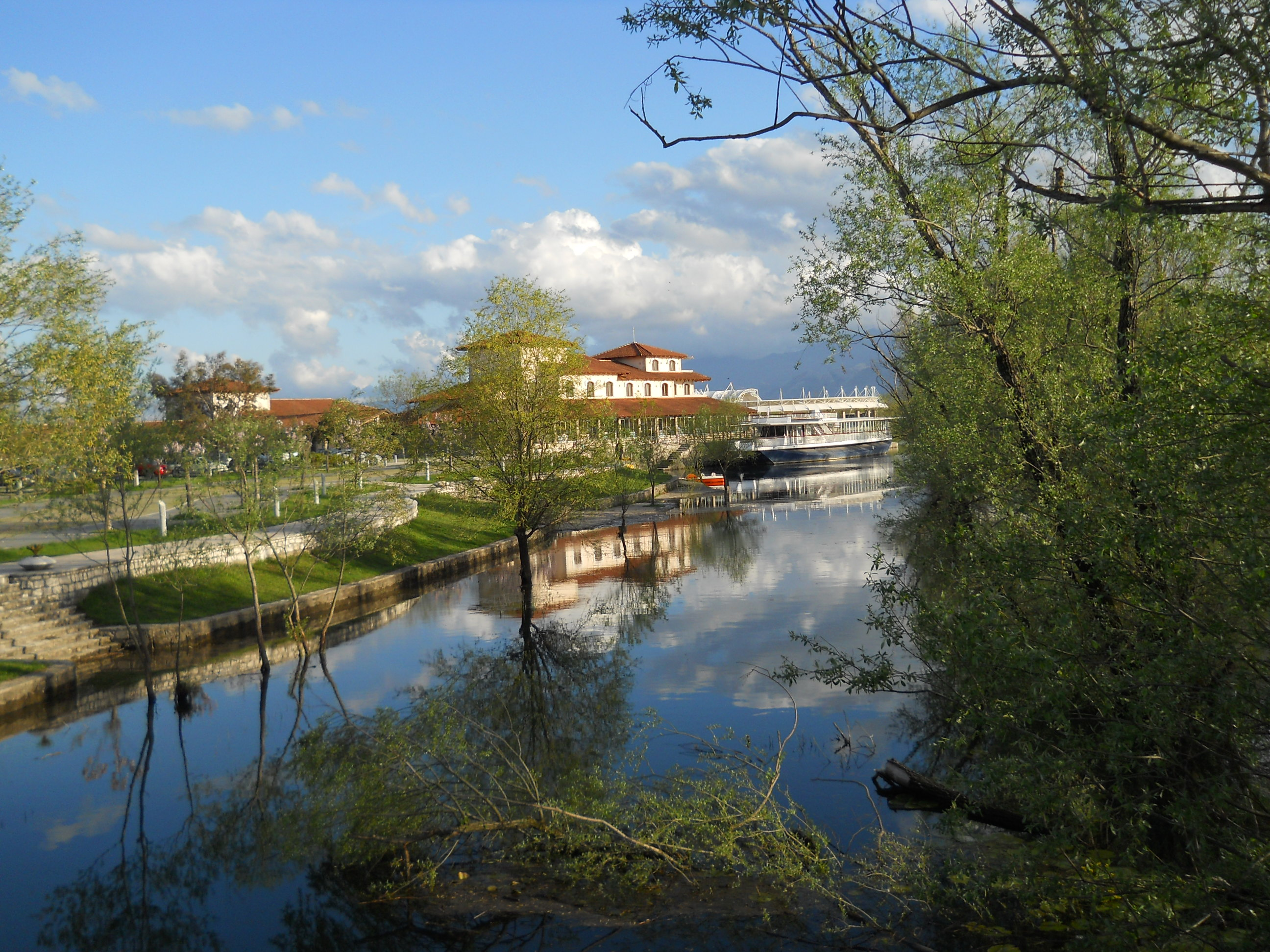 Restaurant Plavnica